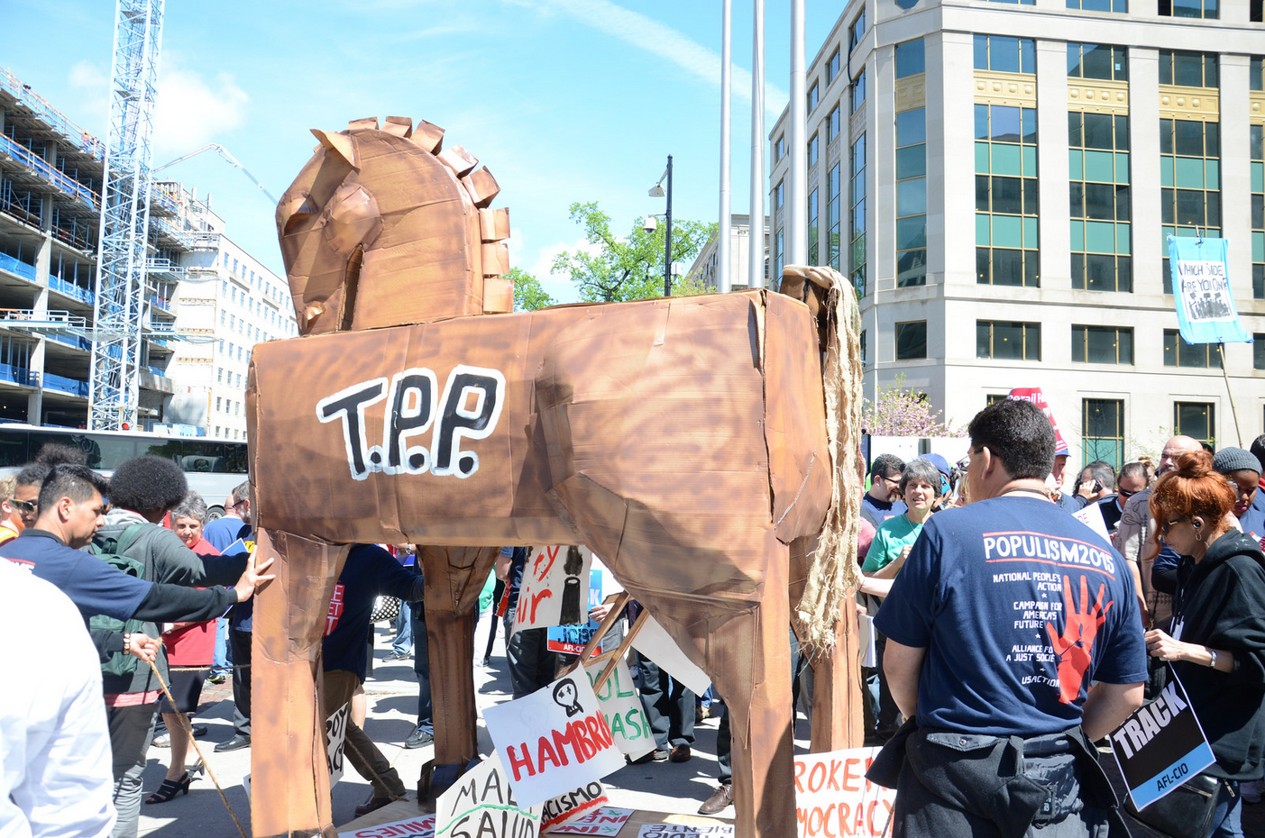 AFGE leaders, staffers and activists participate in #StopFastTrack rallies in the D.C. metro area during the month of April, 2015 文言: 西曆二〇一五年，美京民蜂起示威，反夫跨太平洋計政合縱之約。